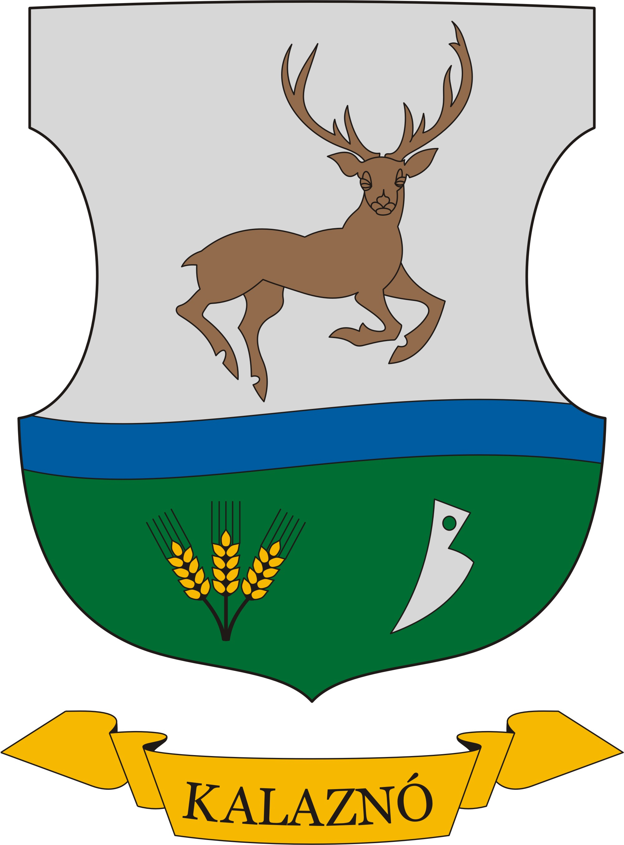 Coat of arms of Kalaznó, Hungary